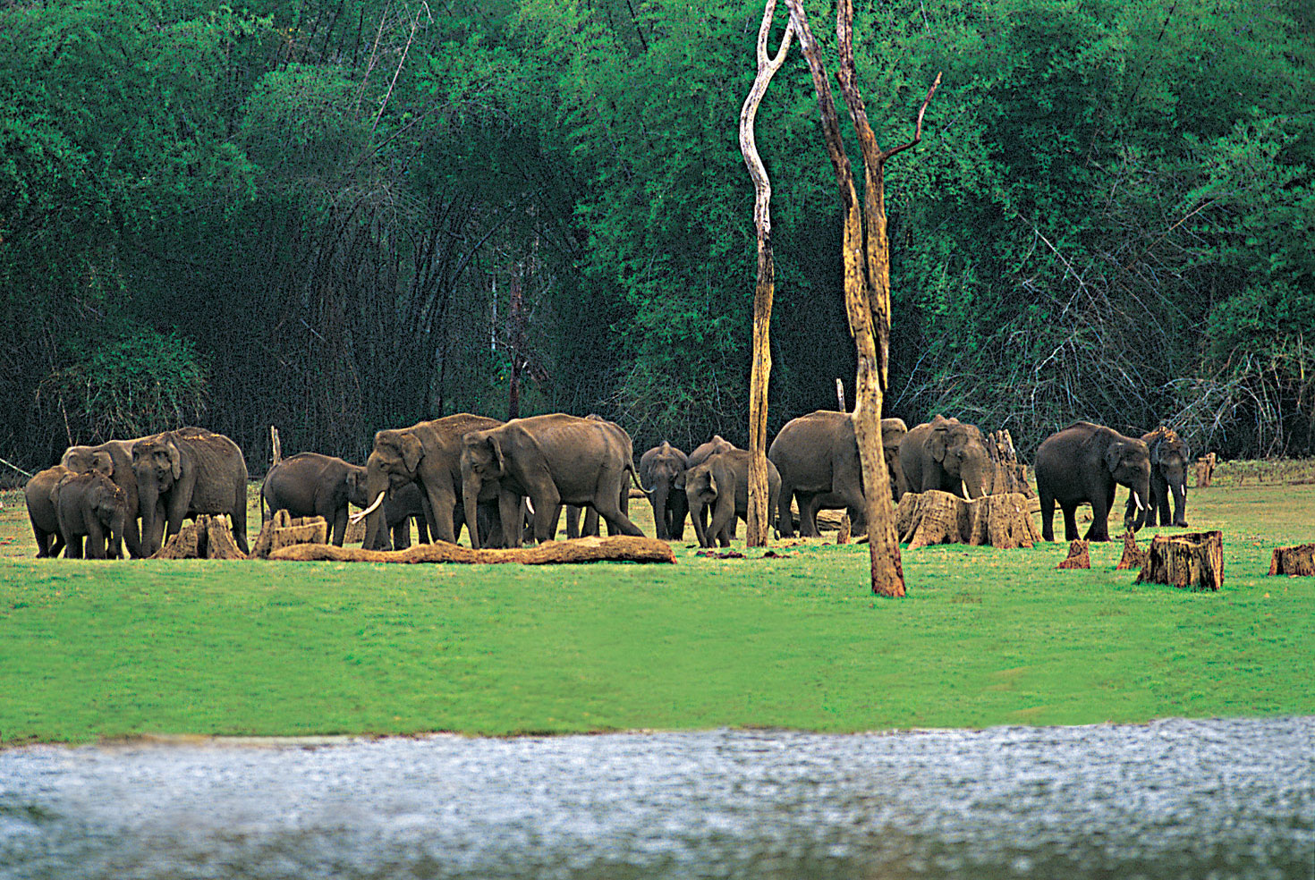 View of Periyar wild life sanctury